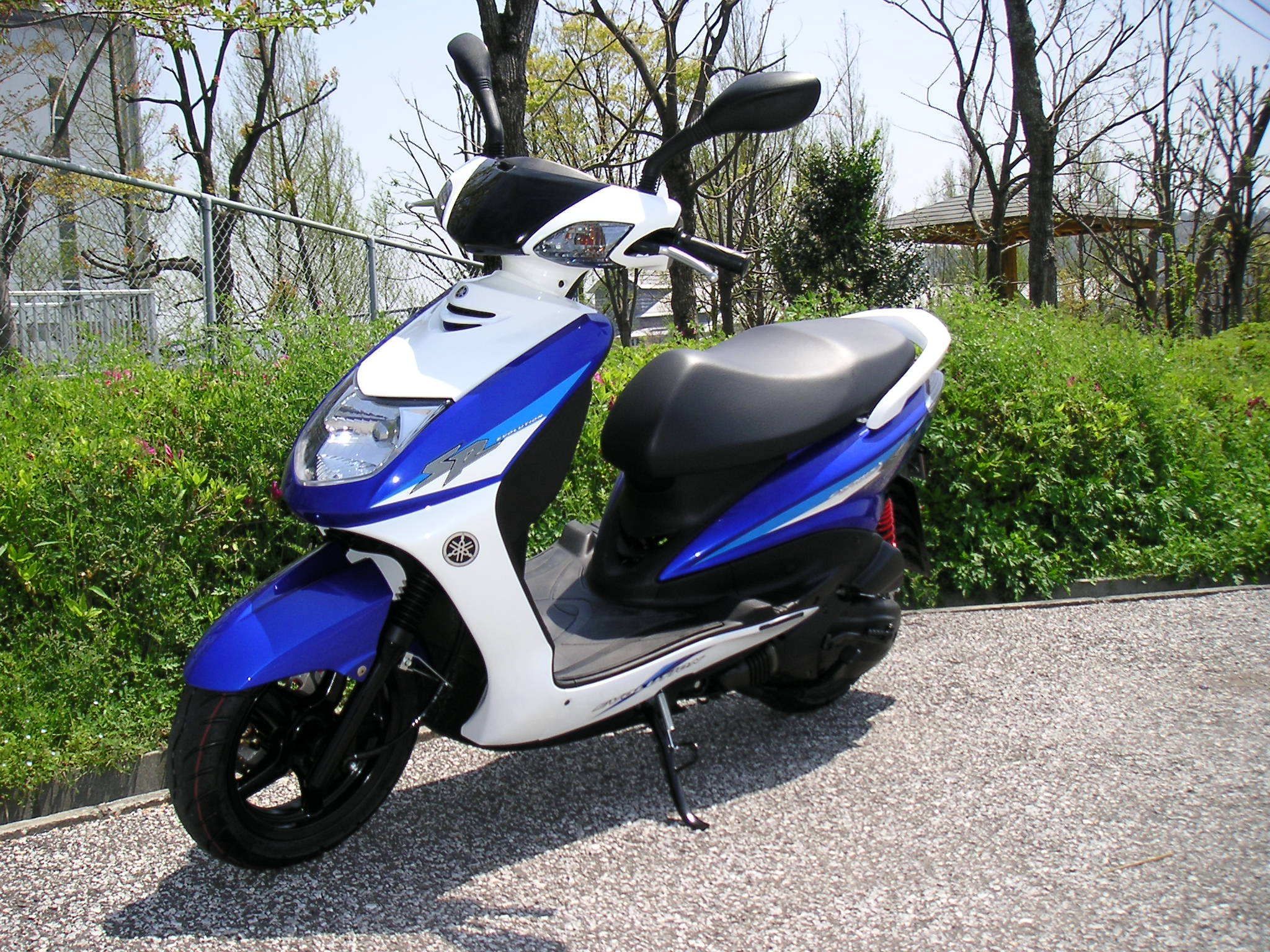 Yamaha Cygnus X SR (Taiwanese model)